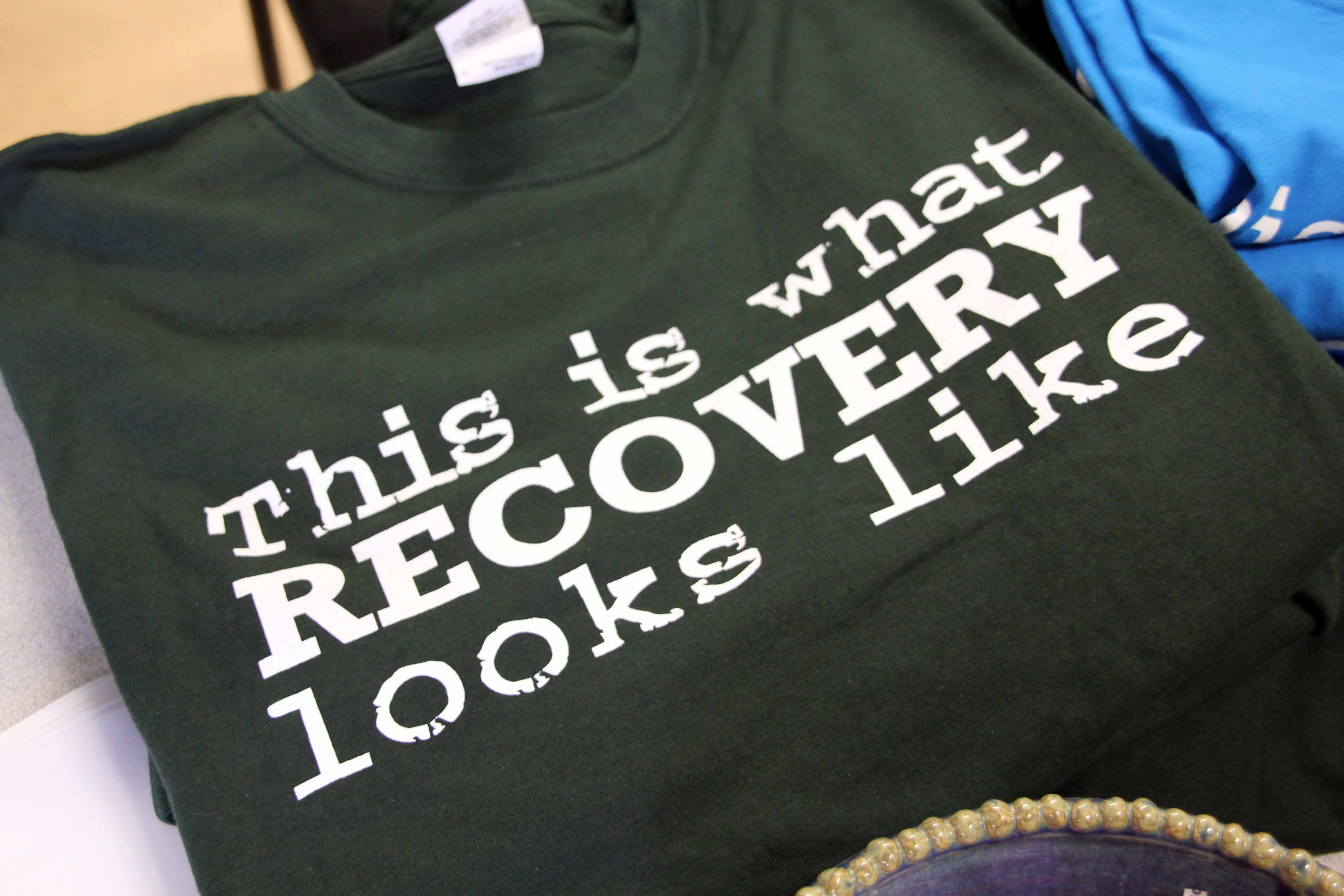 "This is what RECOVERY looks like" T-shirt provided by Maine Alliance of Addiction Recovery (MAAR)